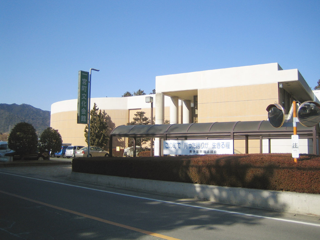 The former Ichinomiya Cultural Hall (一宮町文化会館), in Aichi, Japan